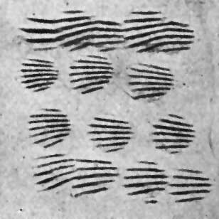 Cardium pottery of Neolithic - Printed decoraton with a mollusk shell (cockle)